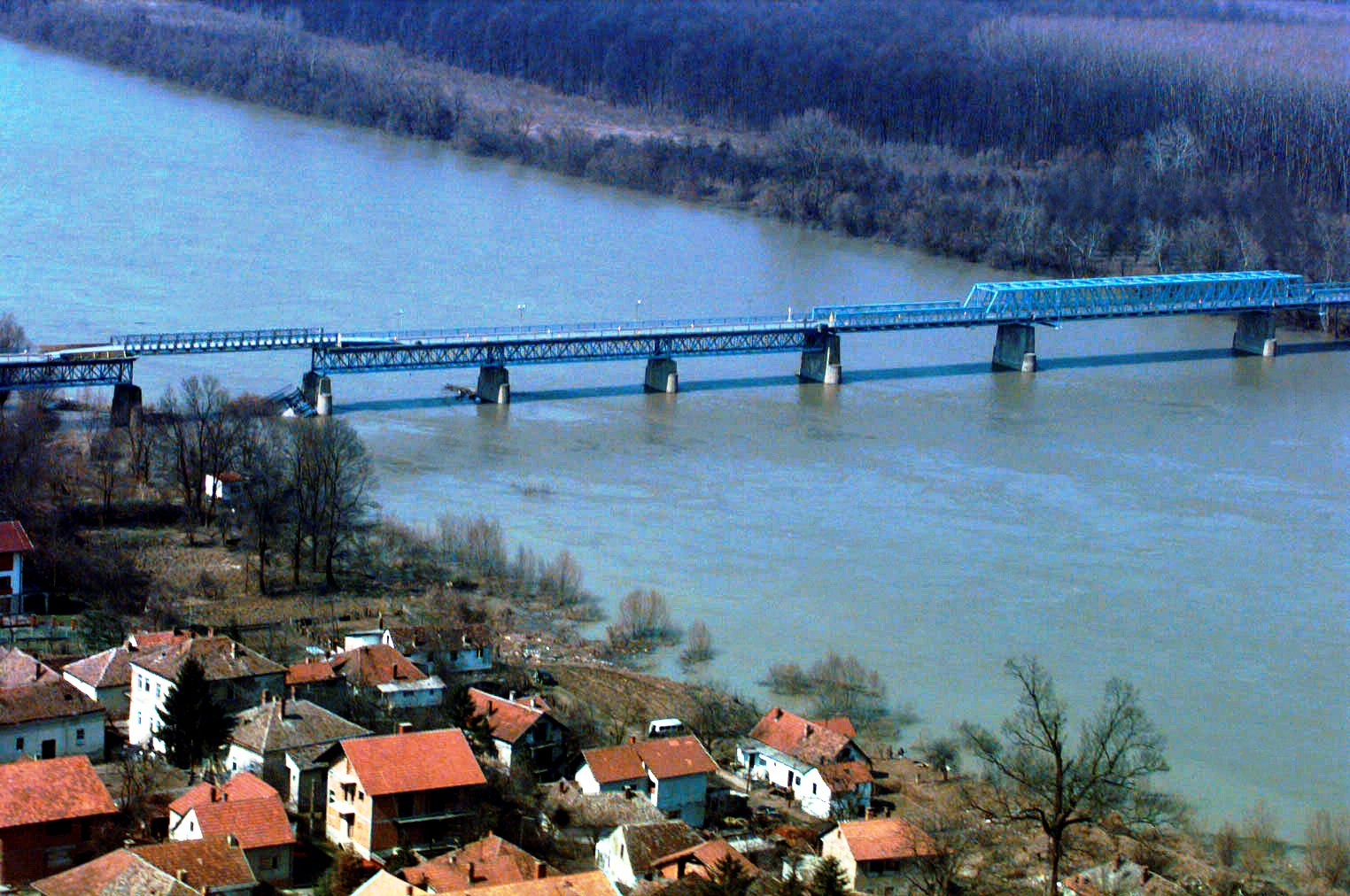 Aerial photo of Brčko Bridge after being repaired by IFOR. The bridge provides a connection between Croatia and Bosnia-Herzegovina (Brčko).